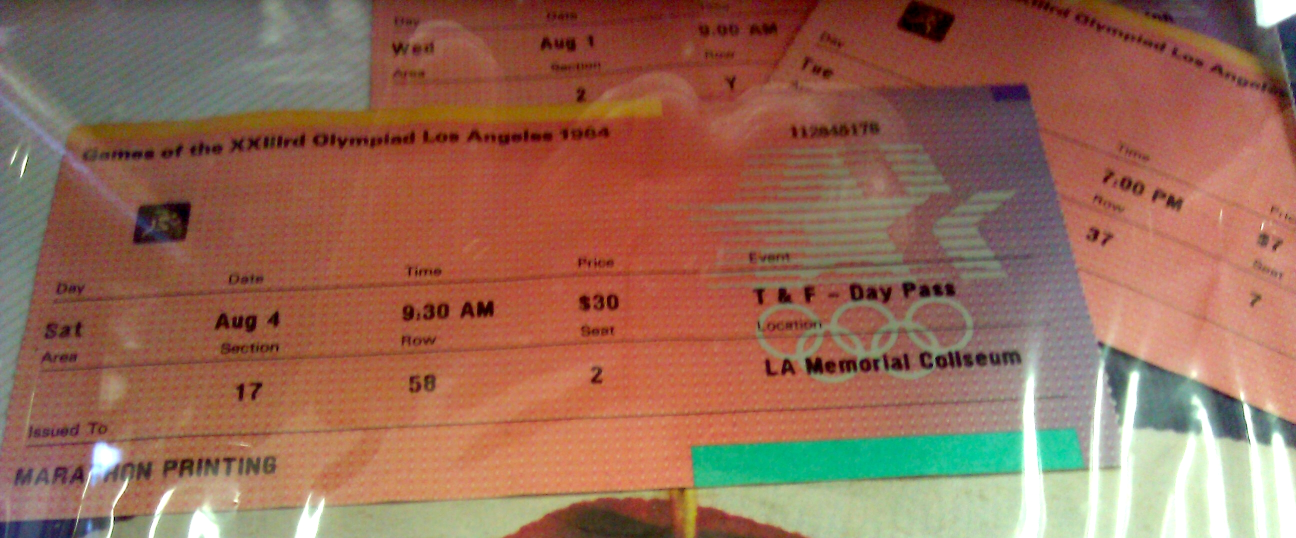 Day pass tickets to track and field events for the 1984 Summer Olympics on August 4th, 1984 at the Los Angeles Memorial Coliseum. The photograph was taken with an HTC 7 Pro mobile and edited (color balance, brightness, contrast, crop) using ArcSoft PhotoStudio 5.5